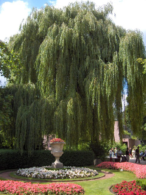 Willow